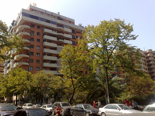 ETC Tirana